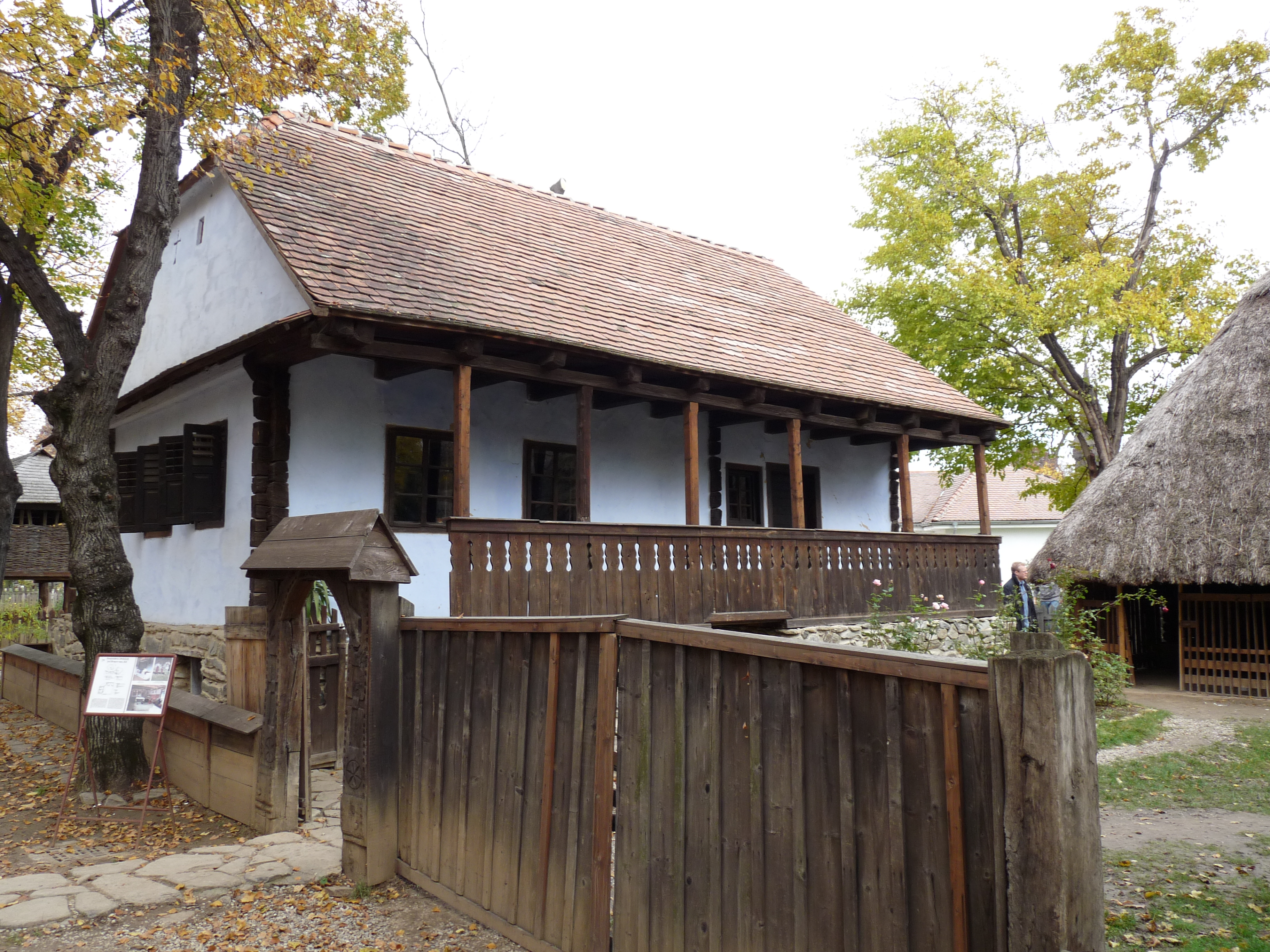 19th century household from Drăguş, Braşov County, exhibited at the Village Museum in Bucharest. The house.